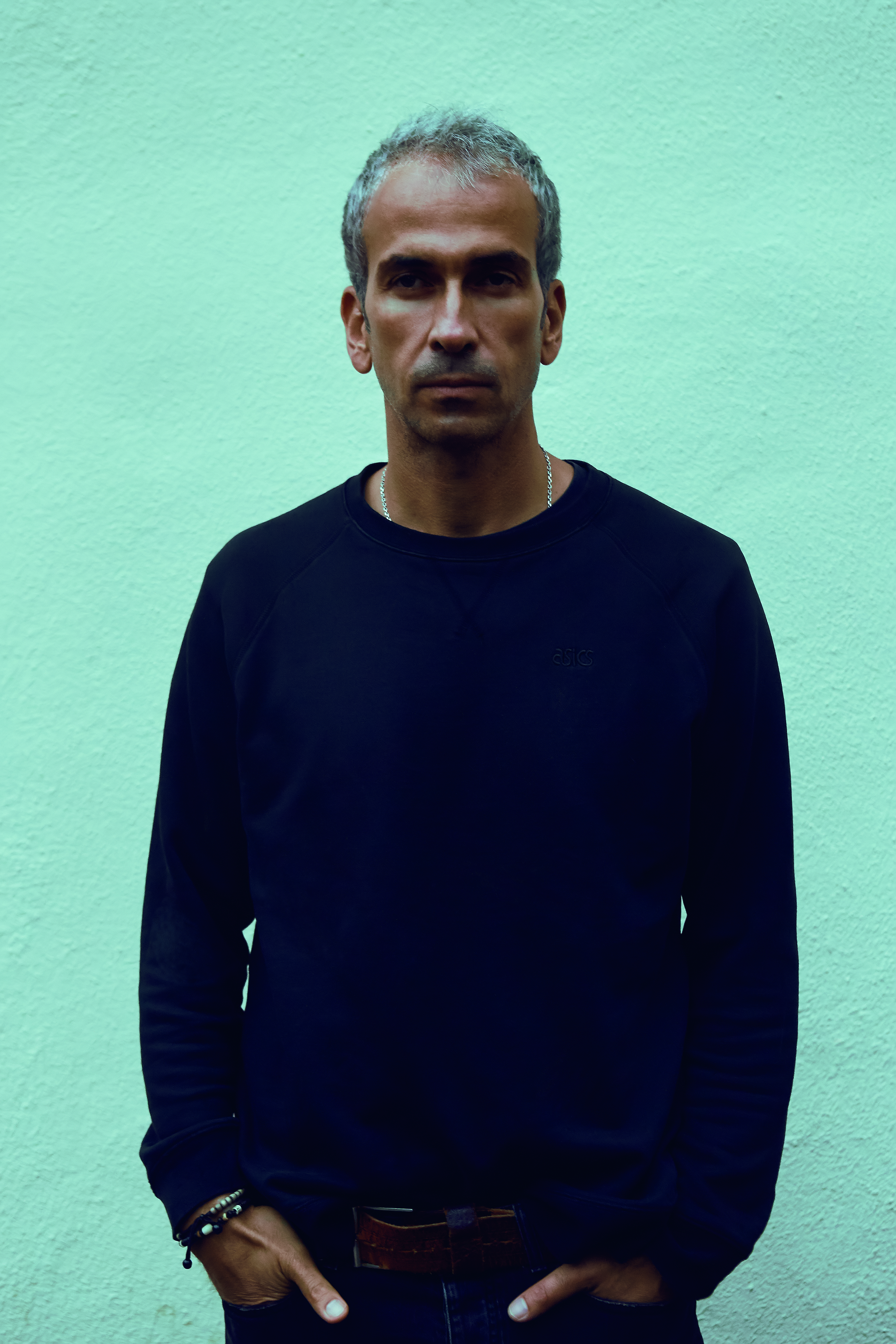 Alphan Eseli, Vogue Turkey, 2018